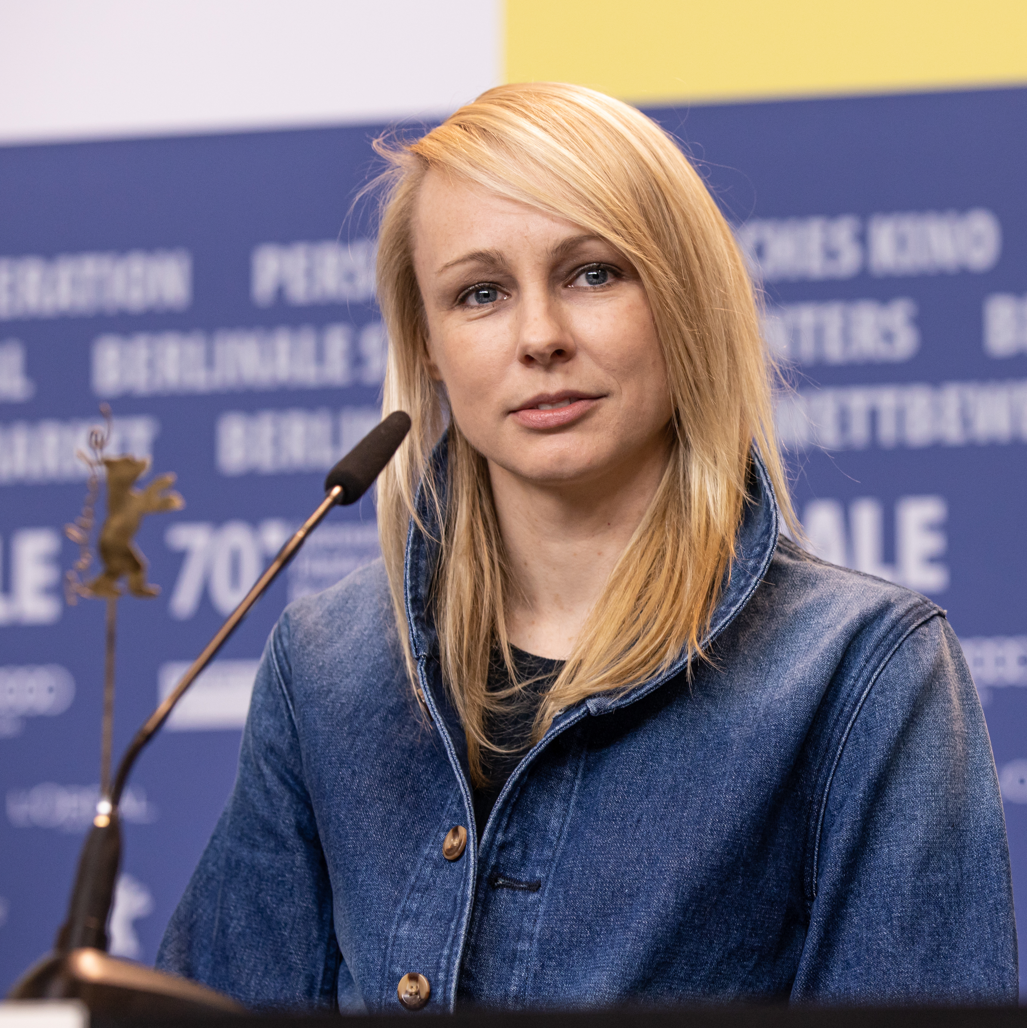 Film director Kitty Green at the Berlinale 2020